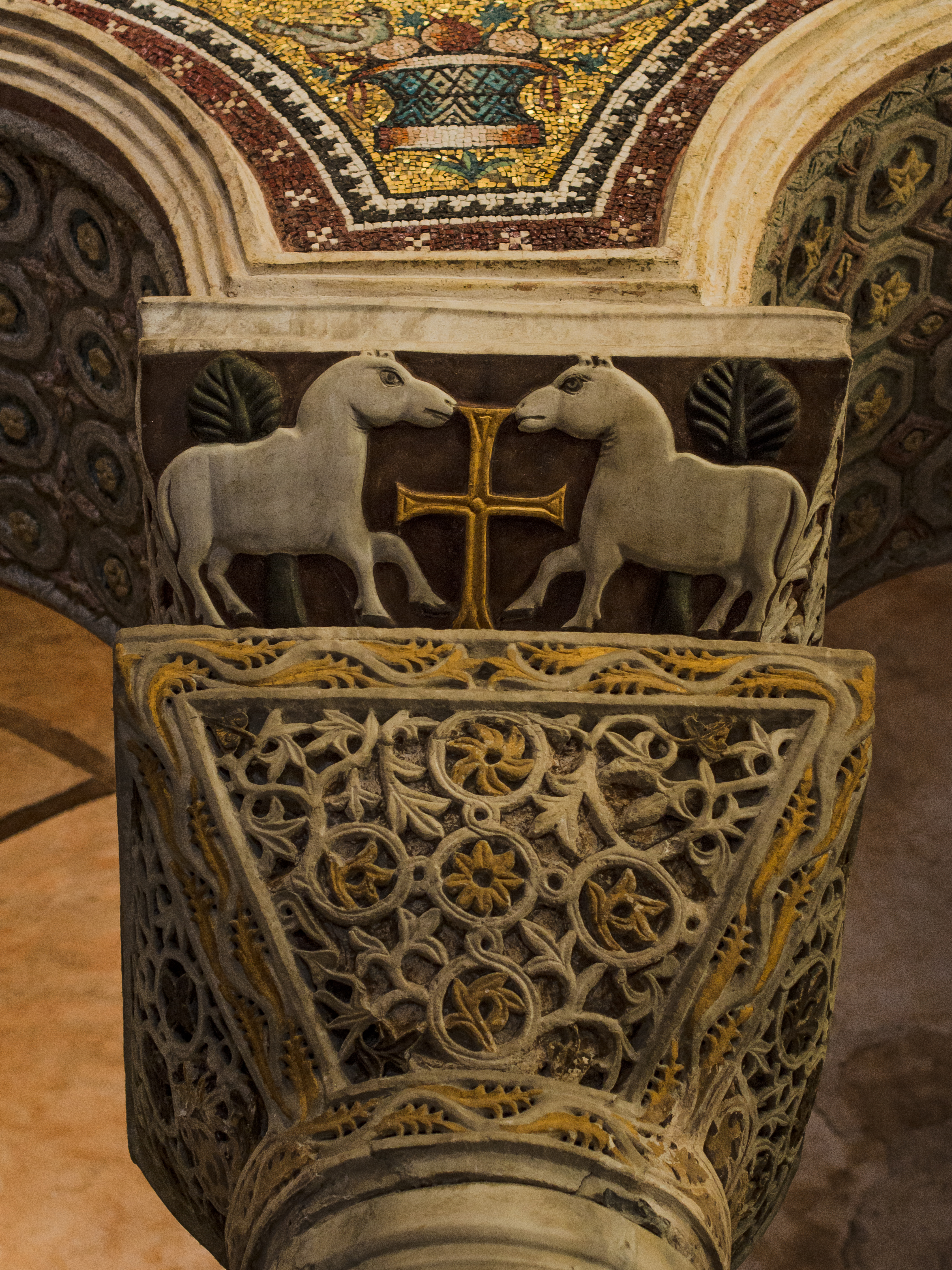 Ravenna - Basilica of San Vitale - capitel